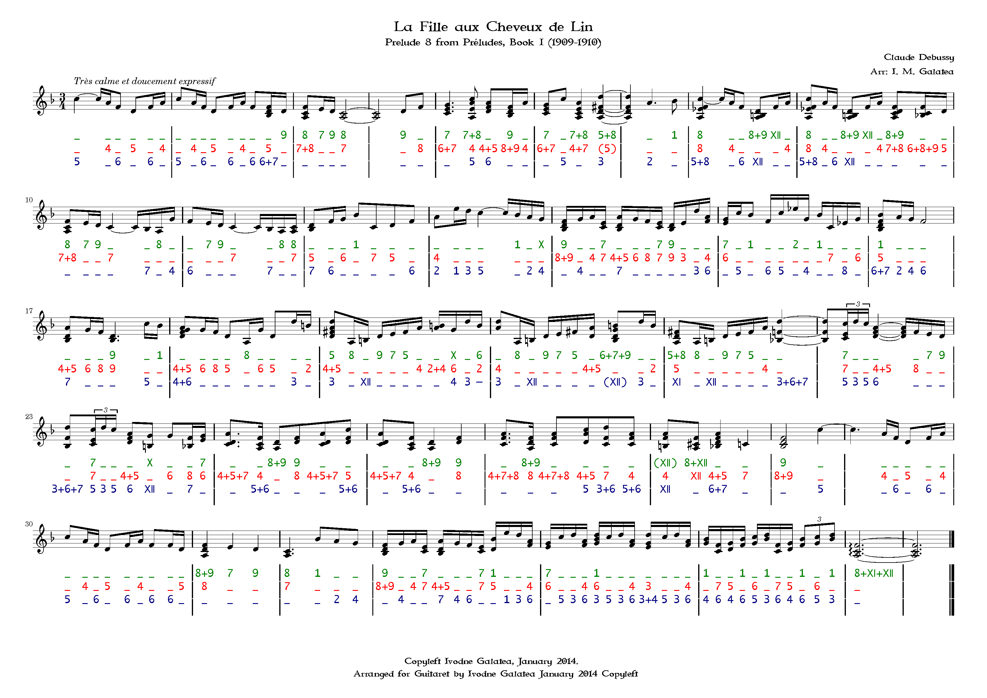 Example of tablature for the Hohner Guitaret: Debussy's La Fille aux Cheveux de Lin